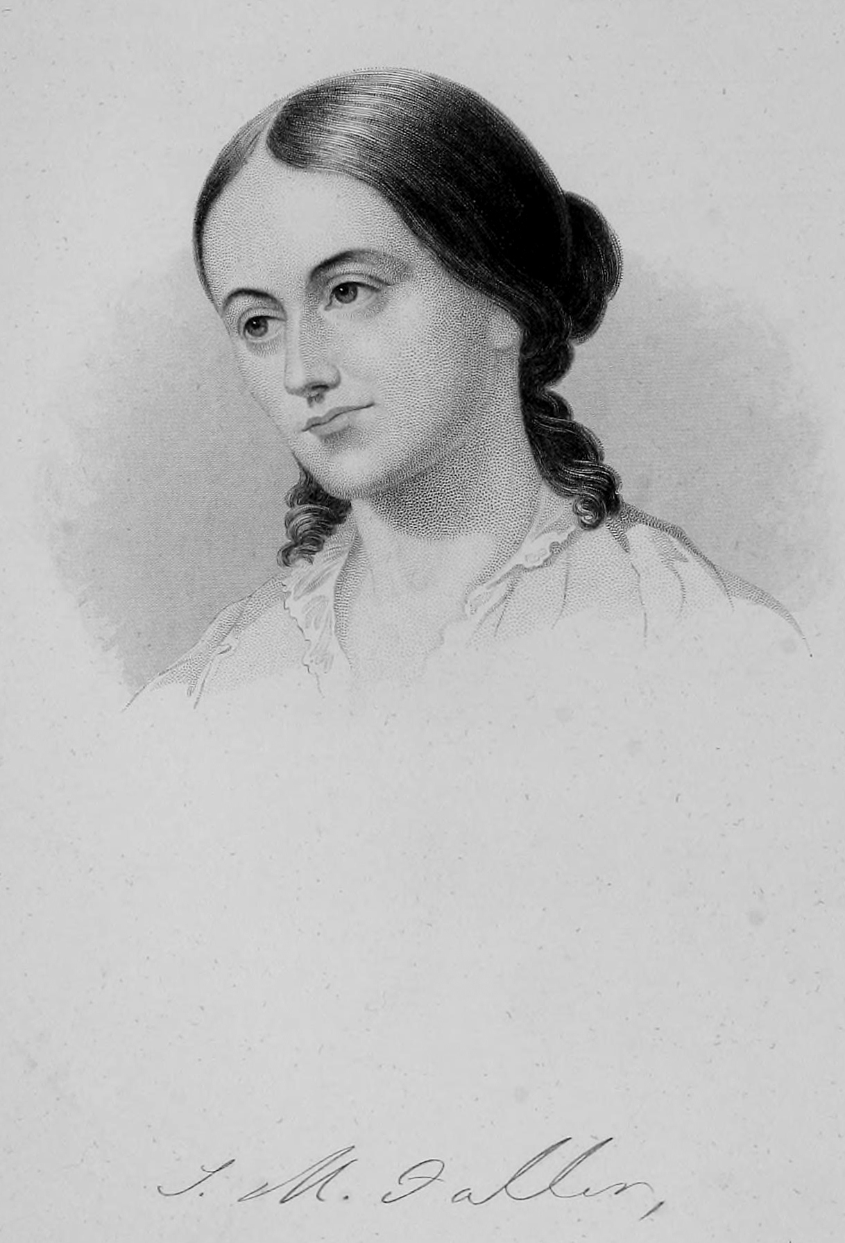 Sarah Margaret Fuller